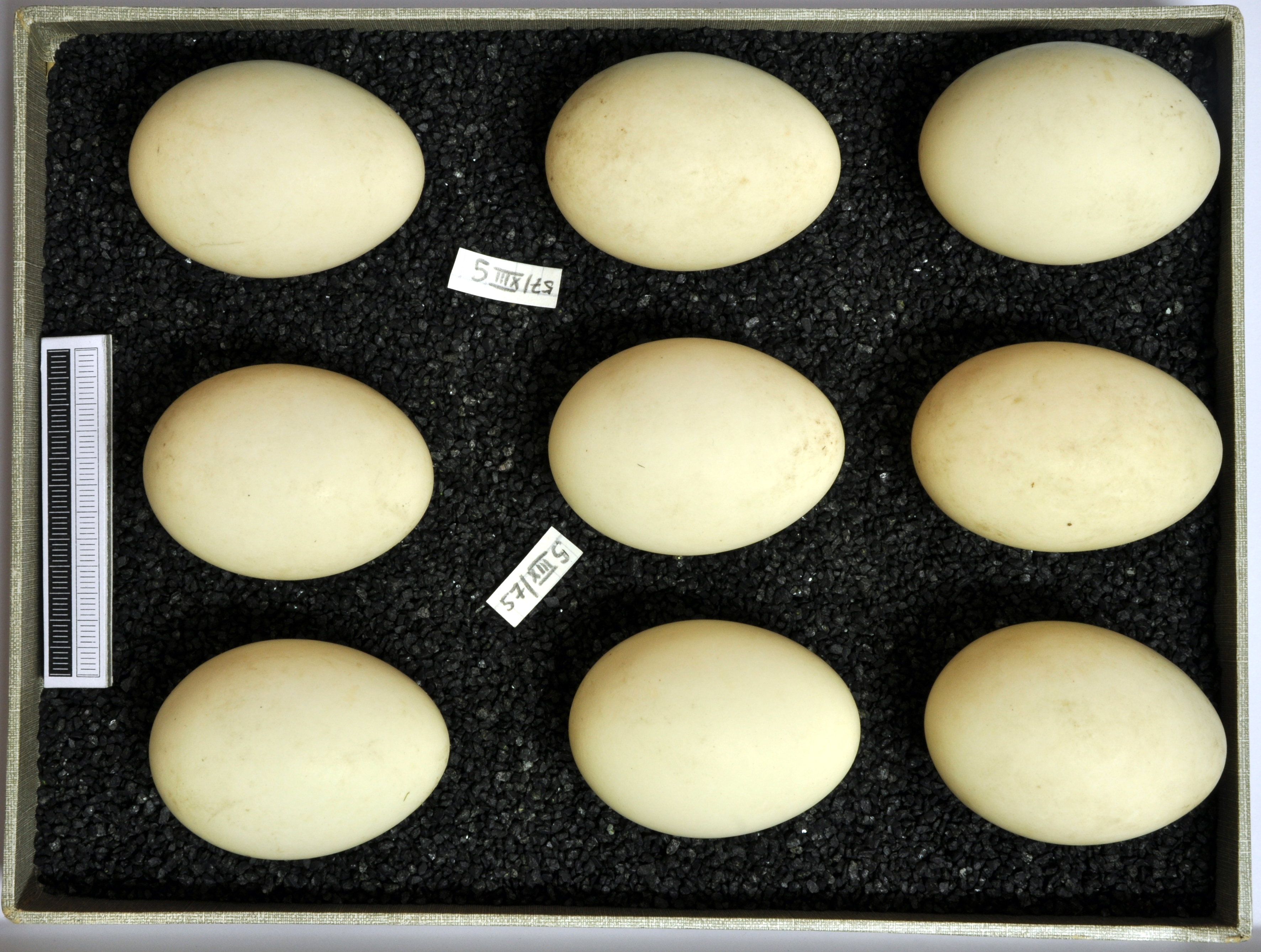 Gadwall Anas strepera, egg, Coll. Museum Wiesbaden, Origin: Ismaning, Bavaria, 13.05.1974, leg. W. Abelmann